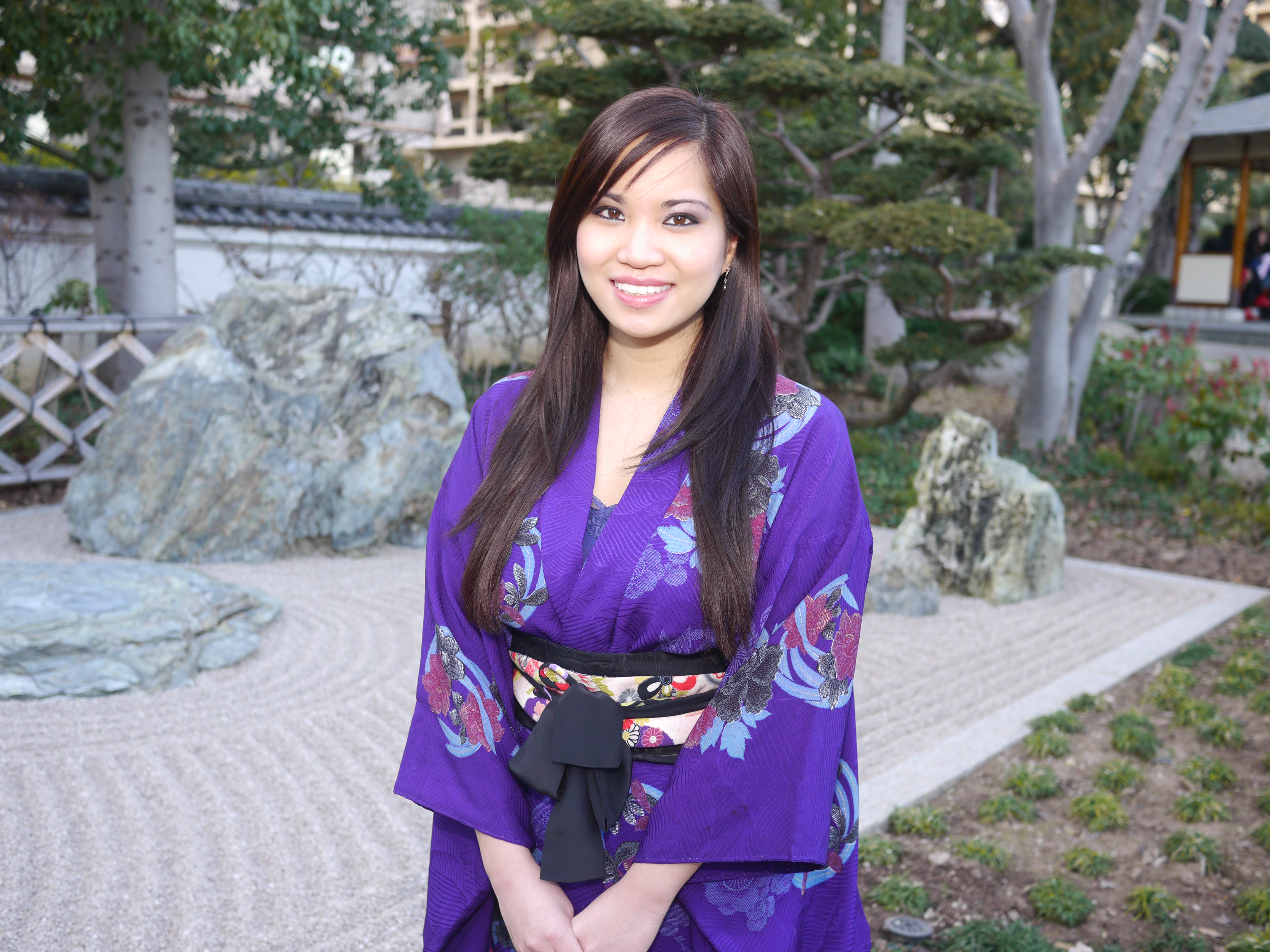 Monaco Anime Game Show Festival; 2013